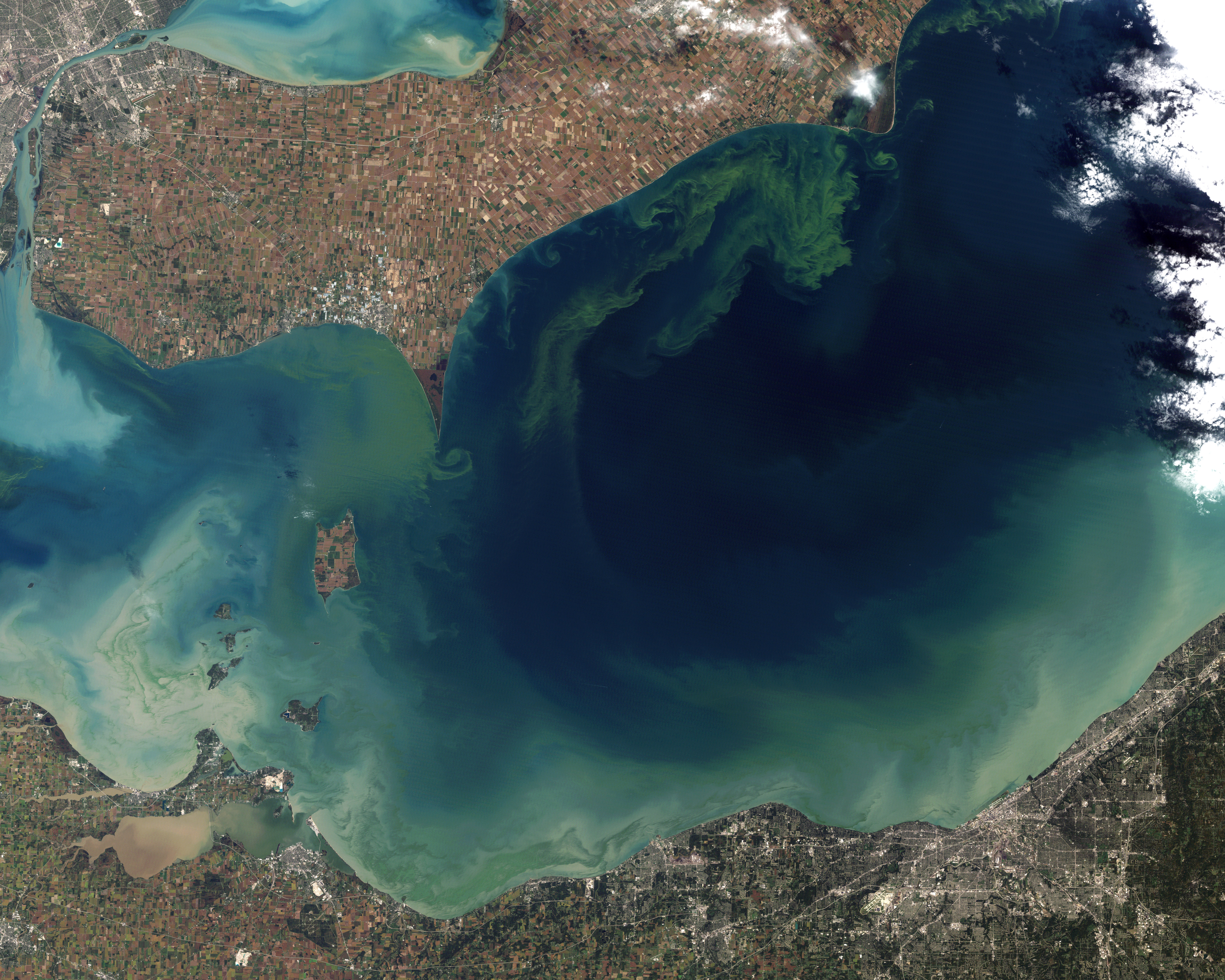 The green scum shown in this image is the worst algae bloom Lake Erie has experienced in decades. Vibrant green filaments extend out from the northern shore.Image captured by the Landsat-5 satellite. Data provided courtesy of the United States Geological Survey.